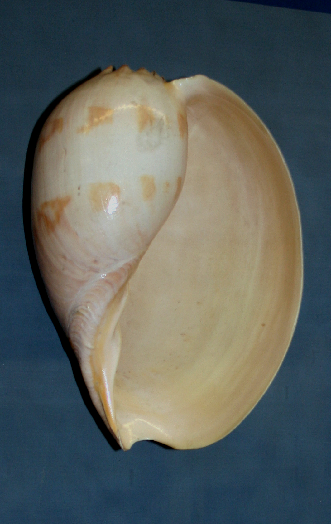 A photo of the shell of marine gastropod Melo aethiopica, synonym: Cymbium aethiopicum, from National Museum, Prague, Czech Republic